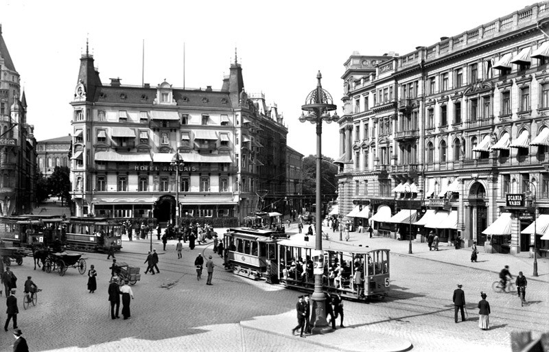 Stureplan in Stockholm in 1920.